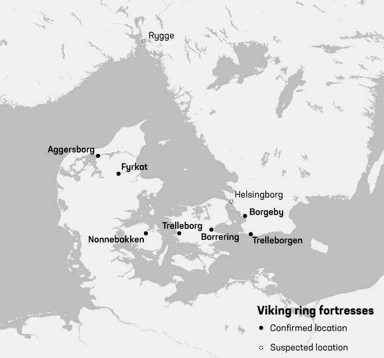 Map showing locations of Viking ring fortresses